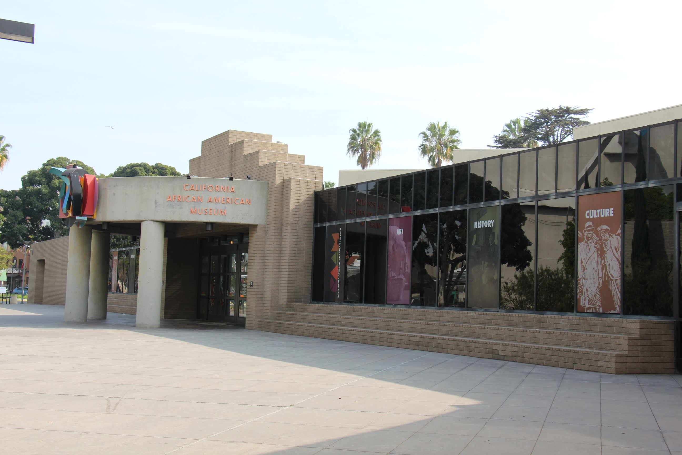 Entrance to the California African American Museum in Exposition Park, Los Angeles, California.